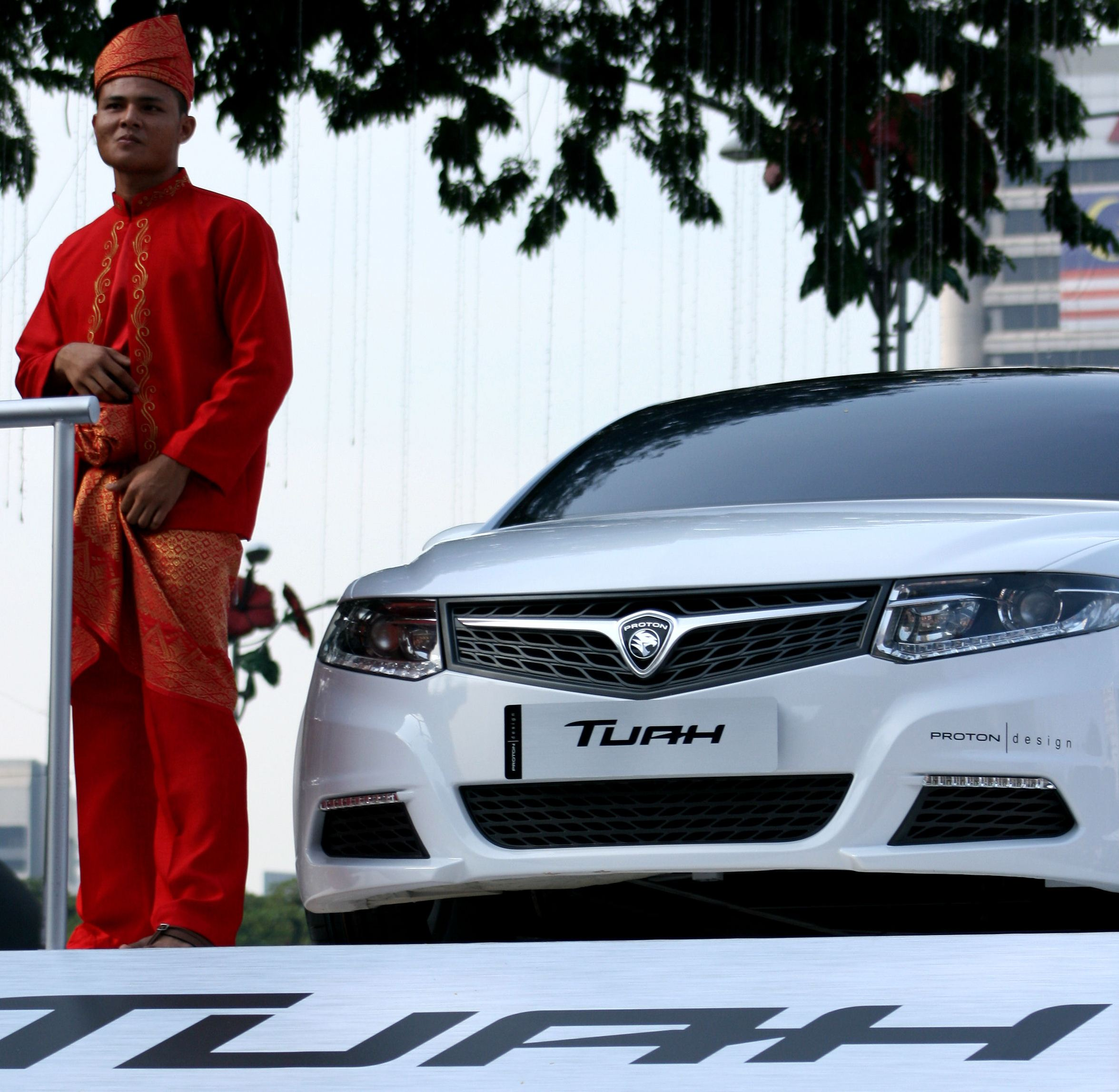 2010 Proton Tuah concept at the 2011 Hari Merdeka & Malaysia celebrations in Dataran Merdeka, Kuala Lumpur.